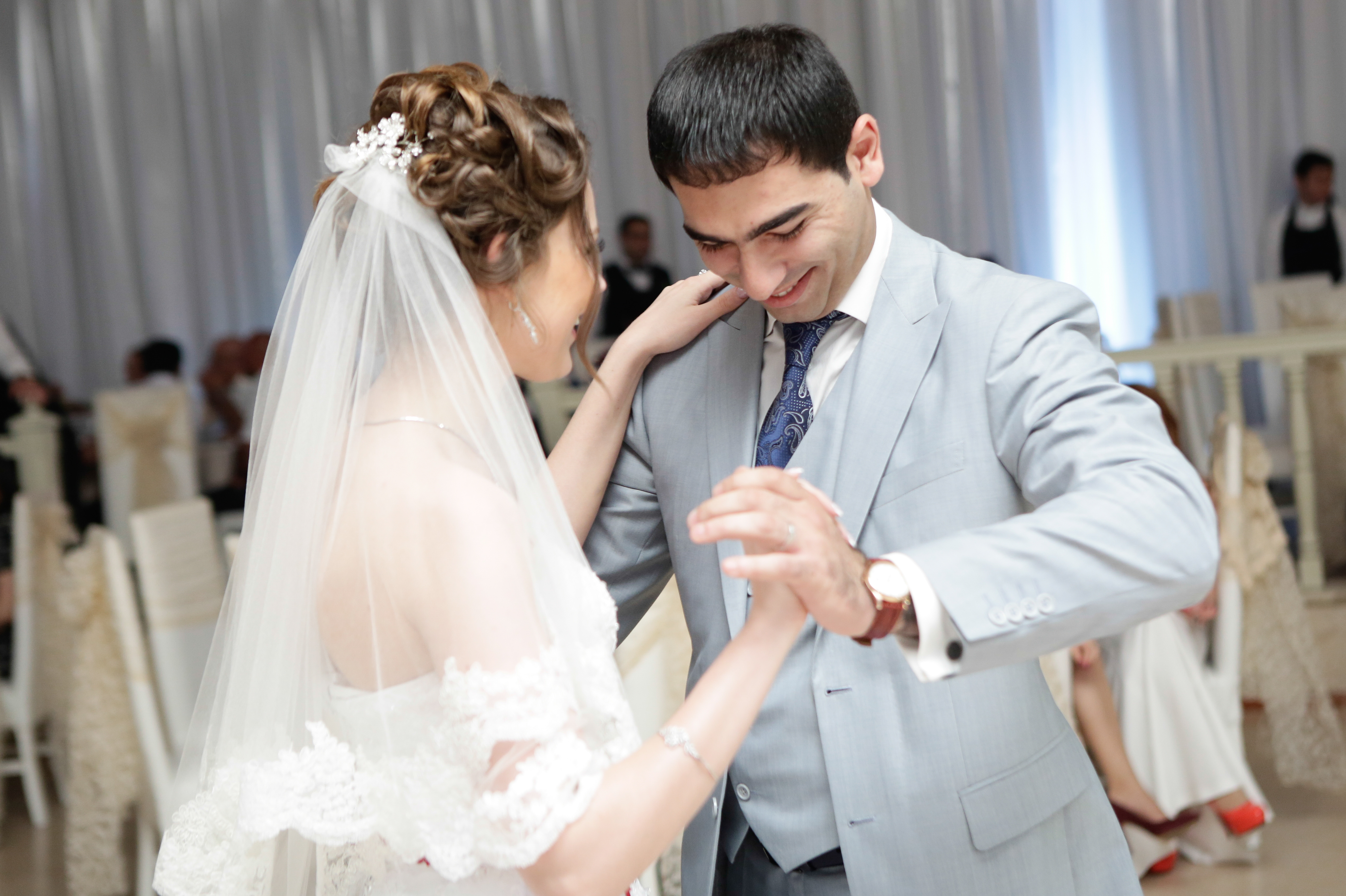 Wedding dance of Azerbaijanian couple